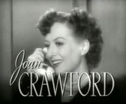 Cropped screenshot of Joan Crawford from the 1939 film The Women.